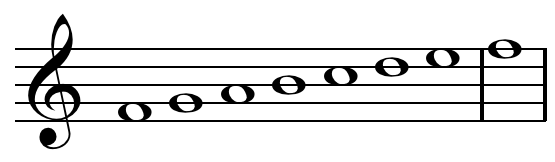 Lydian mode on F.